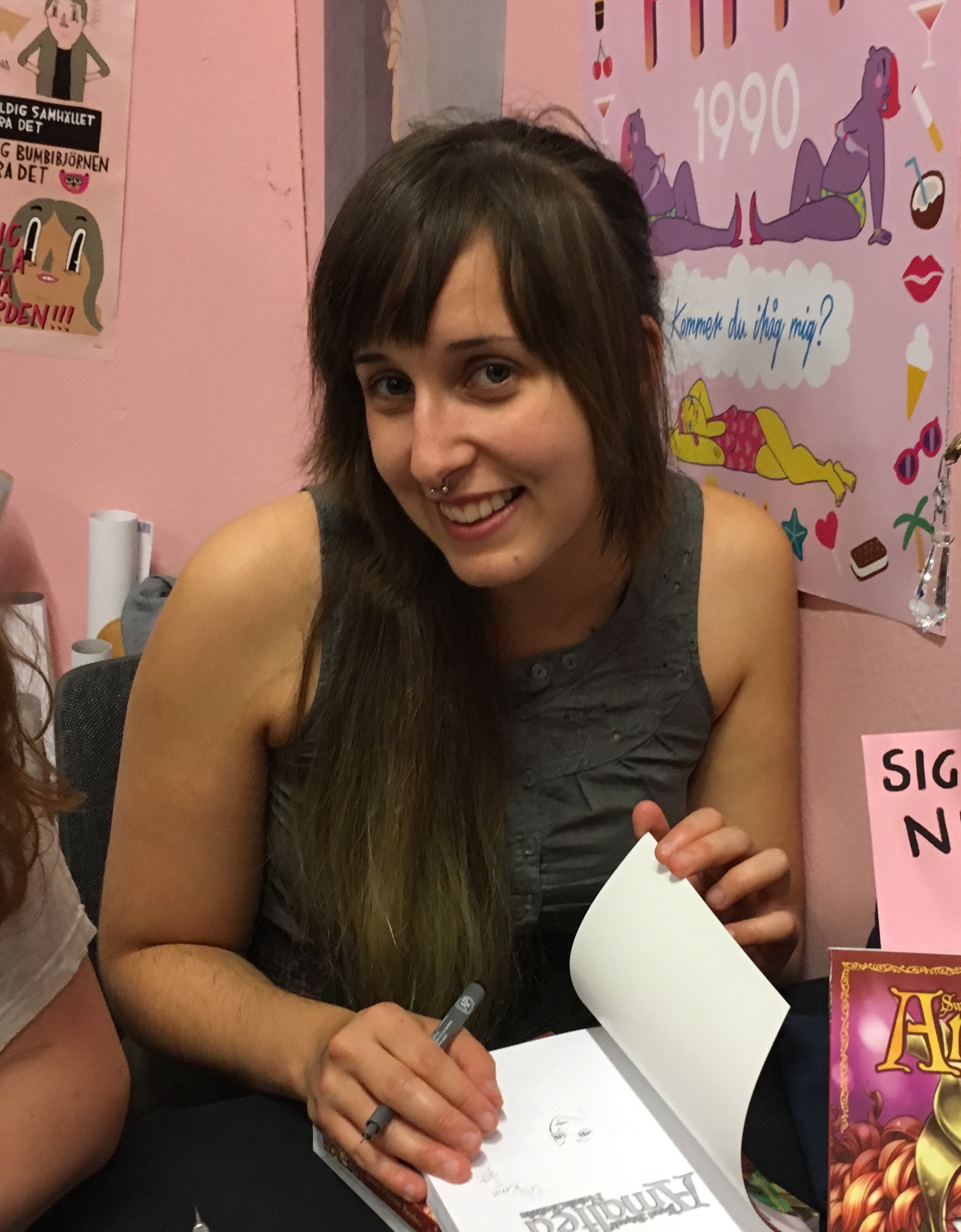 Natalia Batista signing her comic books at the 2016 Gothenburg Book Fair.